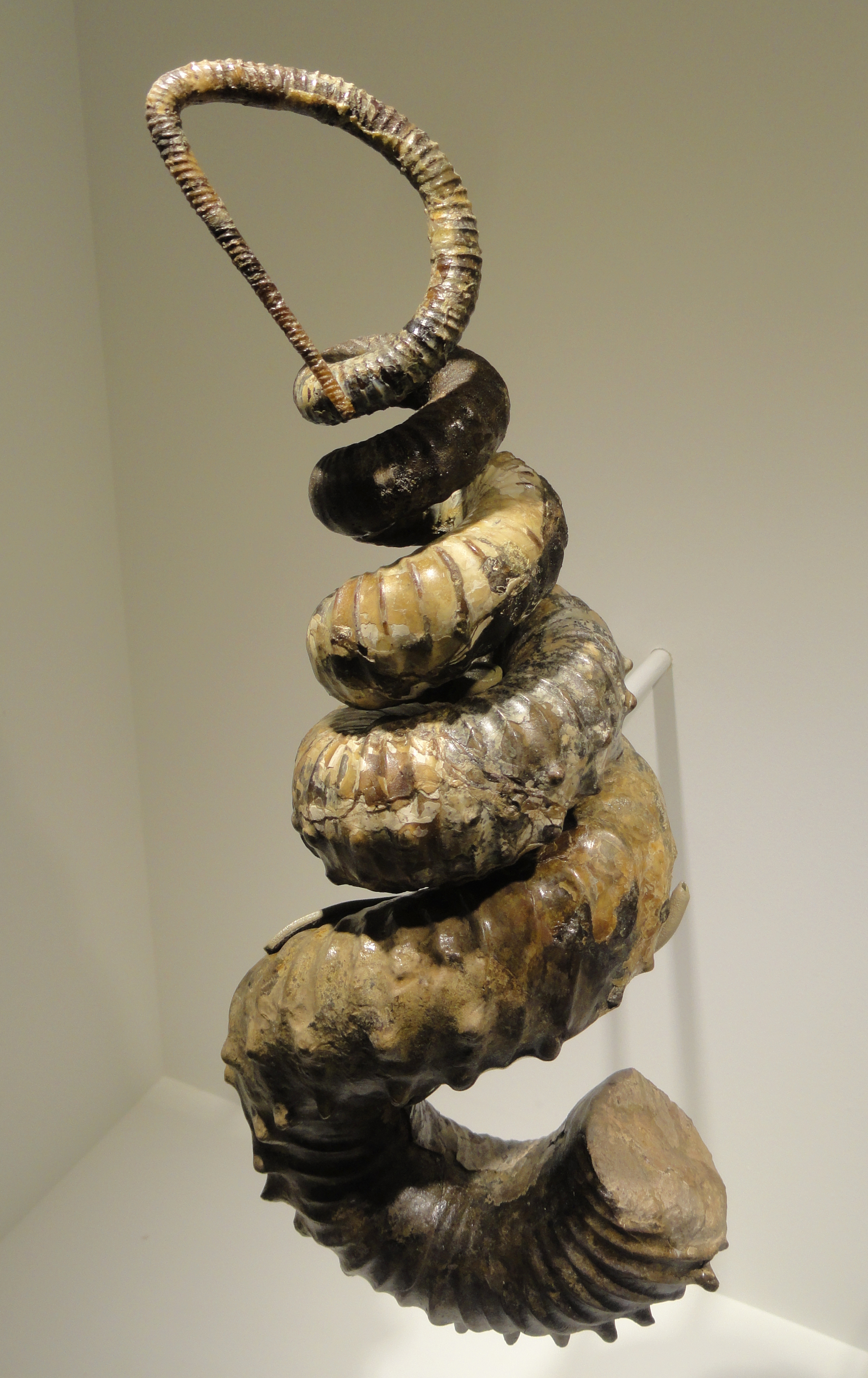 Exhibit in the Houston Museum of Natural Science, Houston, Texas, USA.